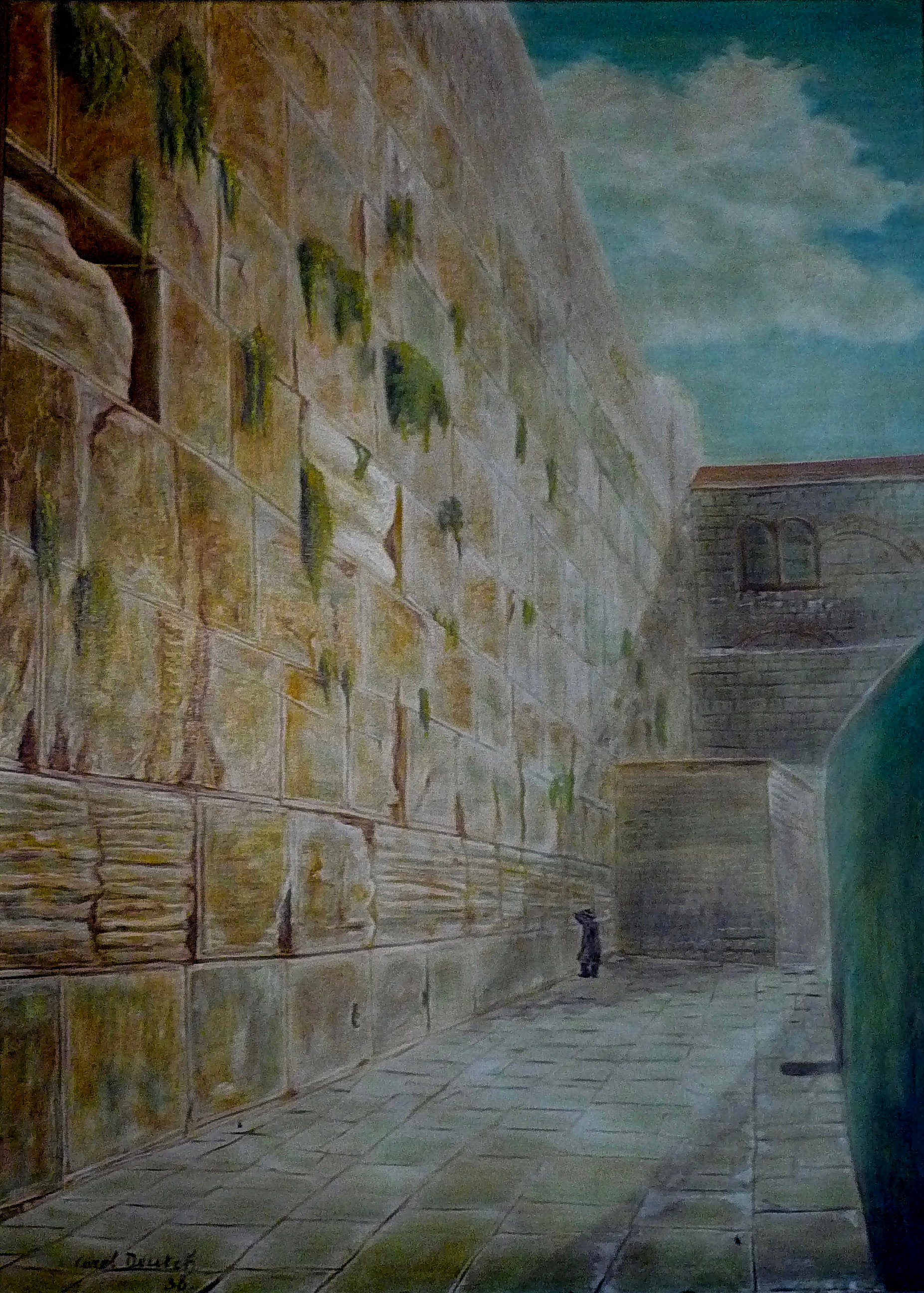 "The West Wall" (1938) by the Belgian artist Carol Deutsch (1894-1944)